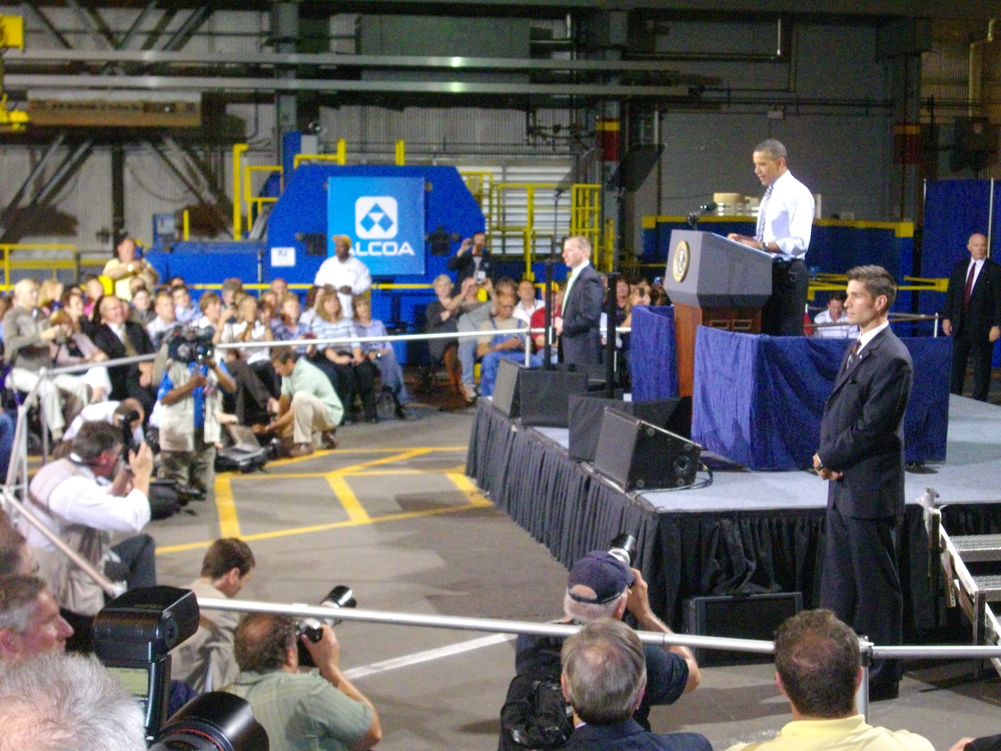 President Obama speaking to Alcoa employees on June 28, 2011 about the growth & future of manufacturing